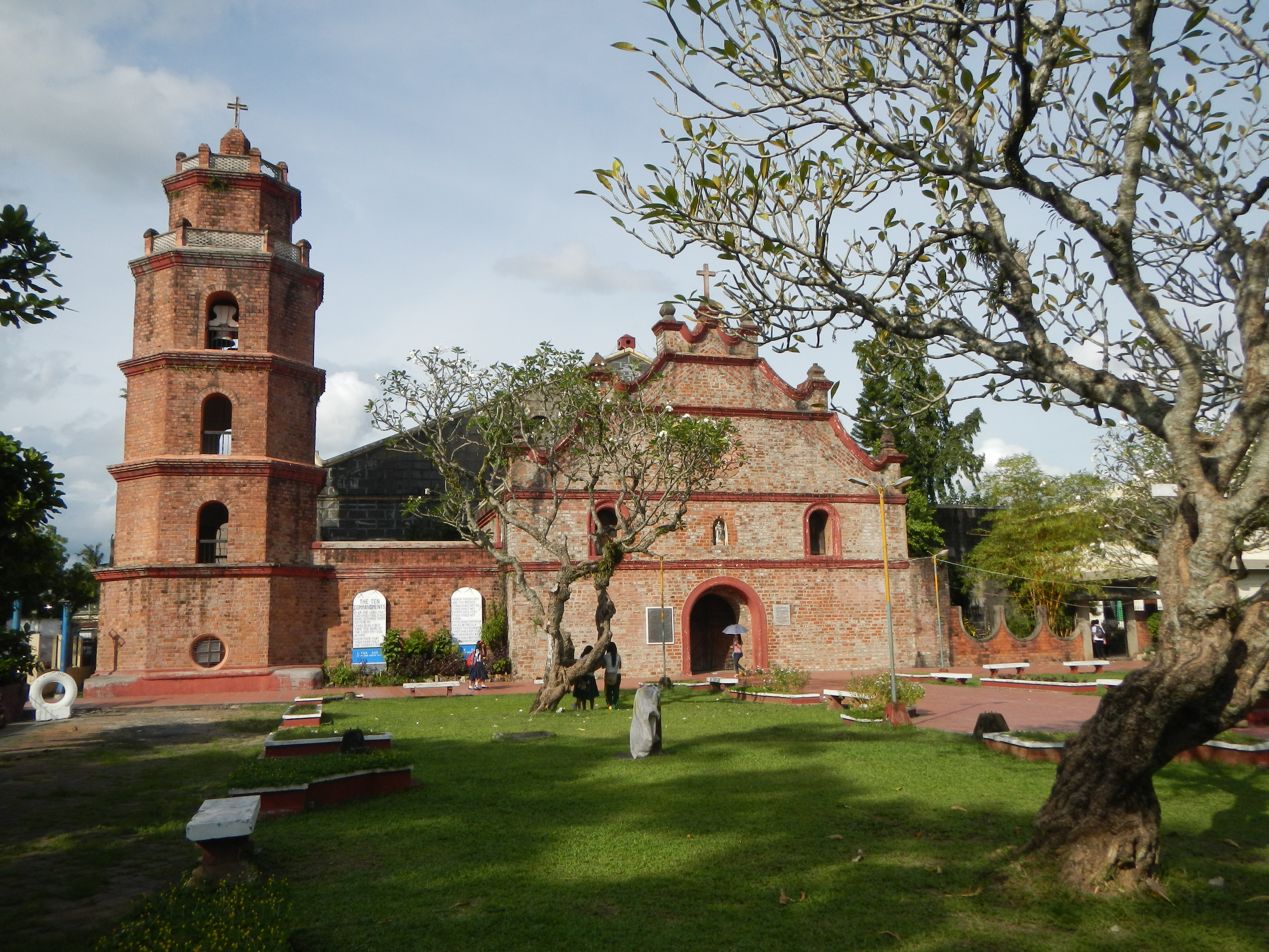 Upload Wizard photos of -- Saint Dominic Cathedral of Bayombong, Bayombong, Nueva Vizcaya[1] located at the heart of the town with the best sounding church bells made of bricks and rare church antiques [2] Bayombong (F-1874) Catholic Rectory Bayombong, 3700 Nueva Vizcaya (includes municipality of Ambaguio), Titular: St. Dominic de Guzman, August 8 Founder: Dominican Friars Parish Priest: Father Teodoro L. Lazo Parochial Vicar: Father Victor M. Abijay.[3] Coordinates: 16°29'1"N 121°9'2"E [4] belongs to the [5] Roman Catholic Diocese of Bayombong [6] [7] - Bayombong, Nueva Vizcaya[8].